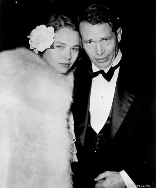 Still of Michelle Phillips and Warren Oates in Dillinger